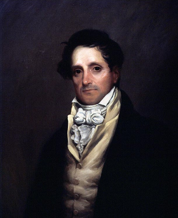 James Kirke Paulding, Secretary of the Navy, 1 July 1838 - 3 March 1841